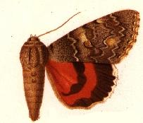 PLATE CXCVII.